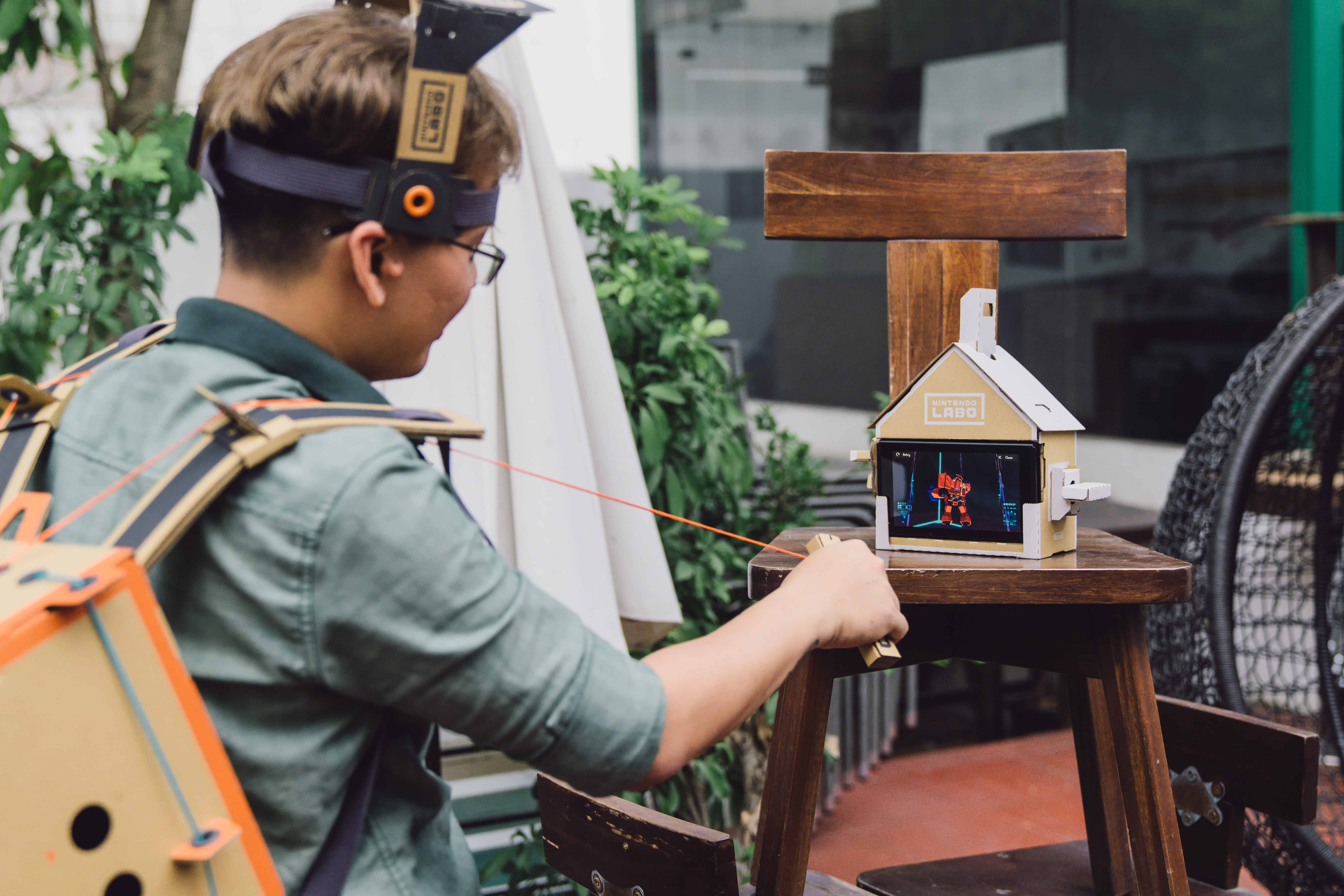 The Robot Kit for Nintendo Lab in action. While there is copyrighted content on screen, it is considered de minimus to the overall picture to show the physical use of the kit.